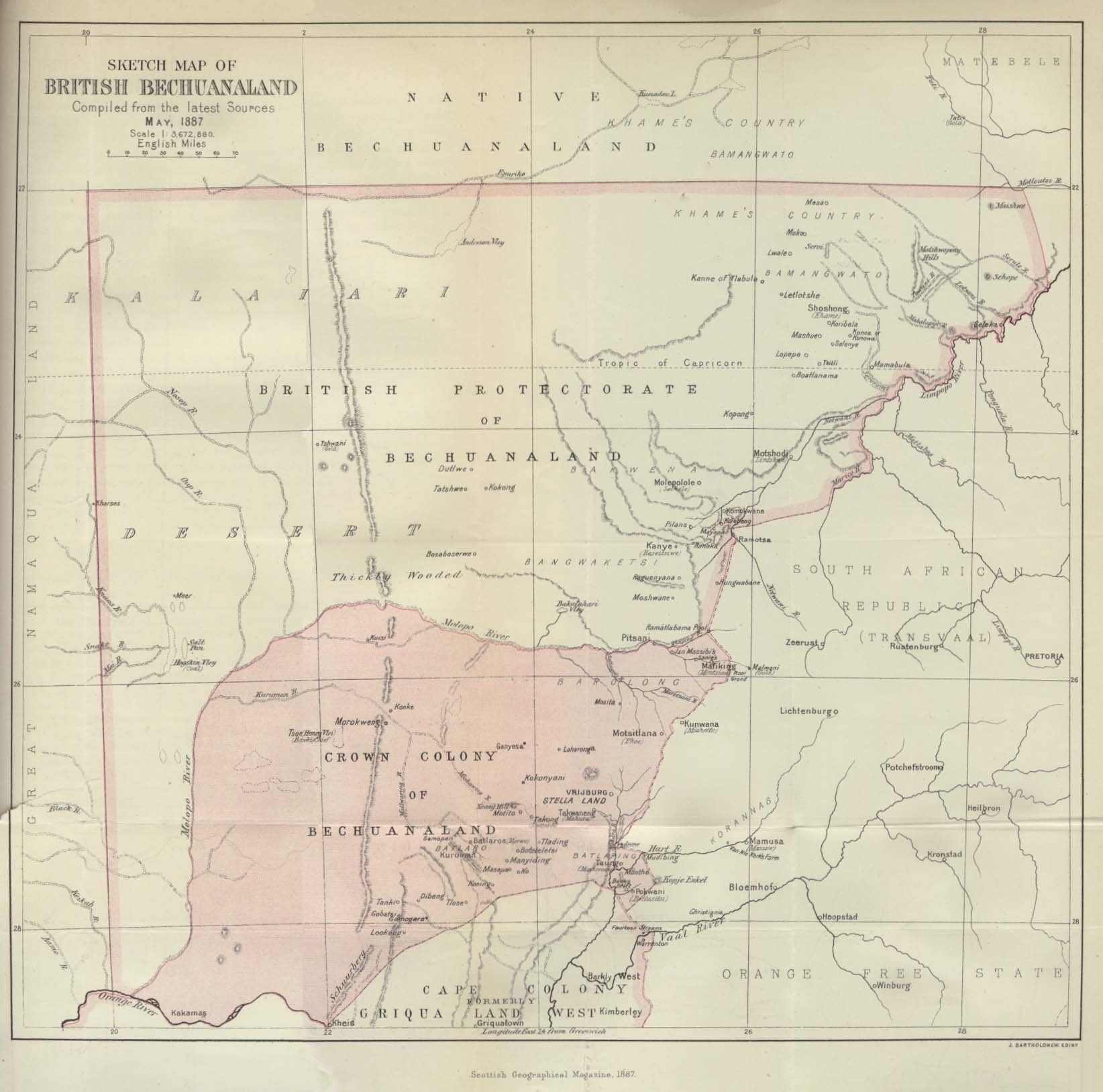 Sketch Map of British Bechuanaland, May 1887.